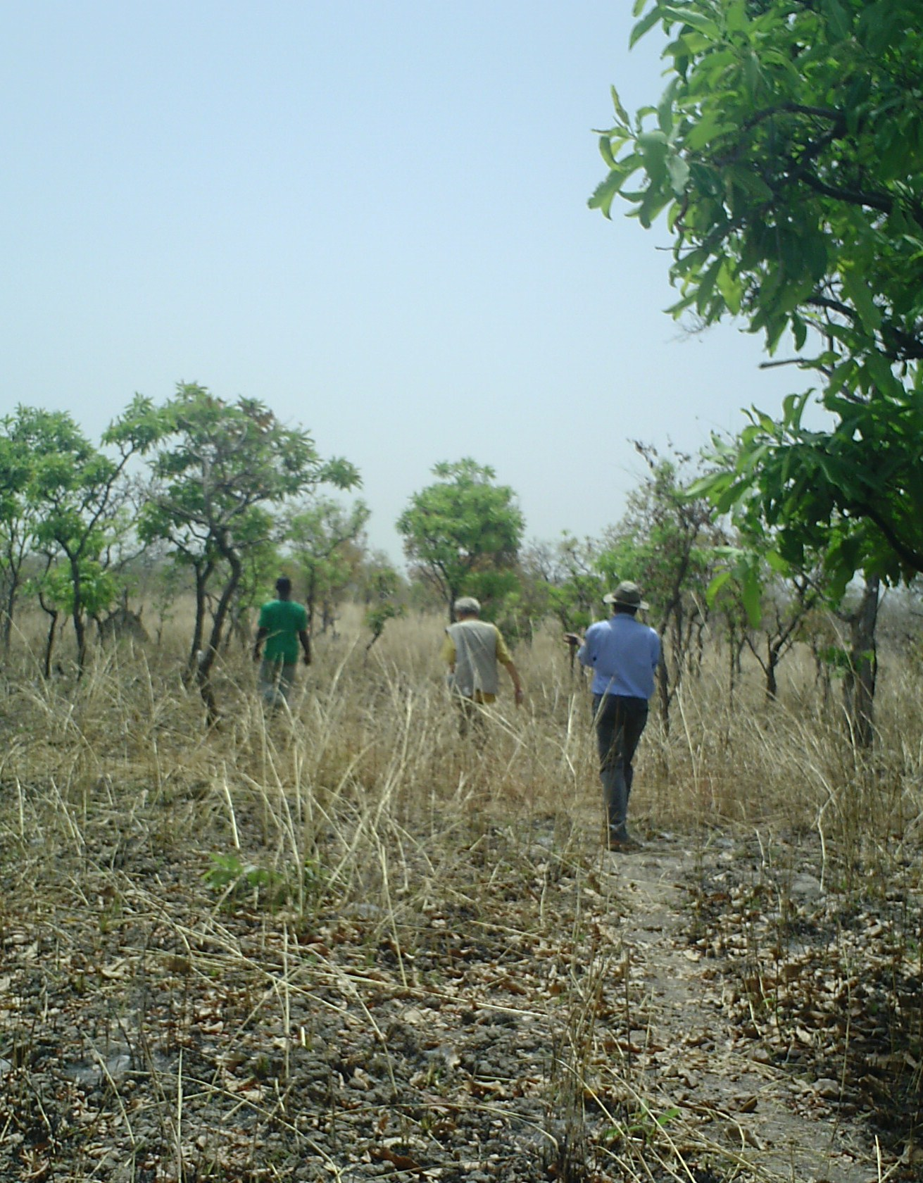 Bouba Ndjida in Cameroon, location of elephant slaughter. A team of conservationists goes to survey the poaching crisis. Credit: Dirck Byler/USFWS